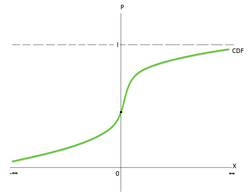 This graph is a cumulative distribution function of a random variable